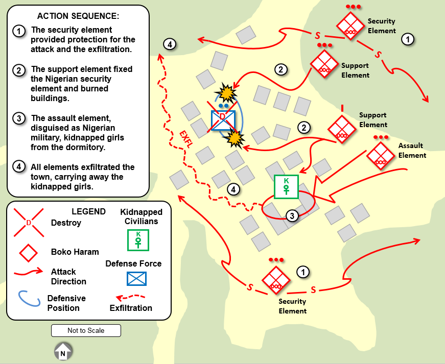 This map shows the raid on Chibok Girls Secondary School by Boko Haram on 14 April 2014